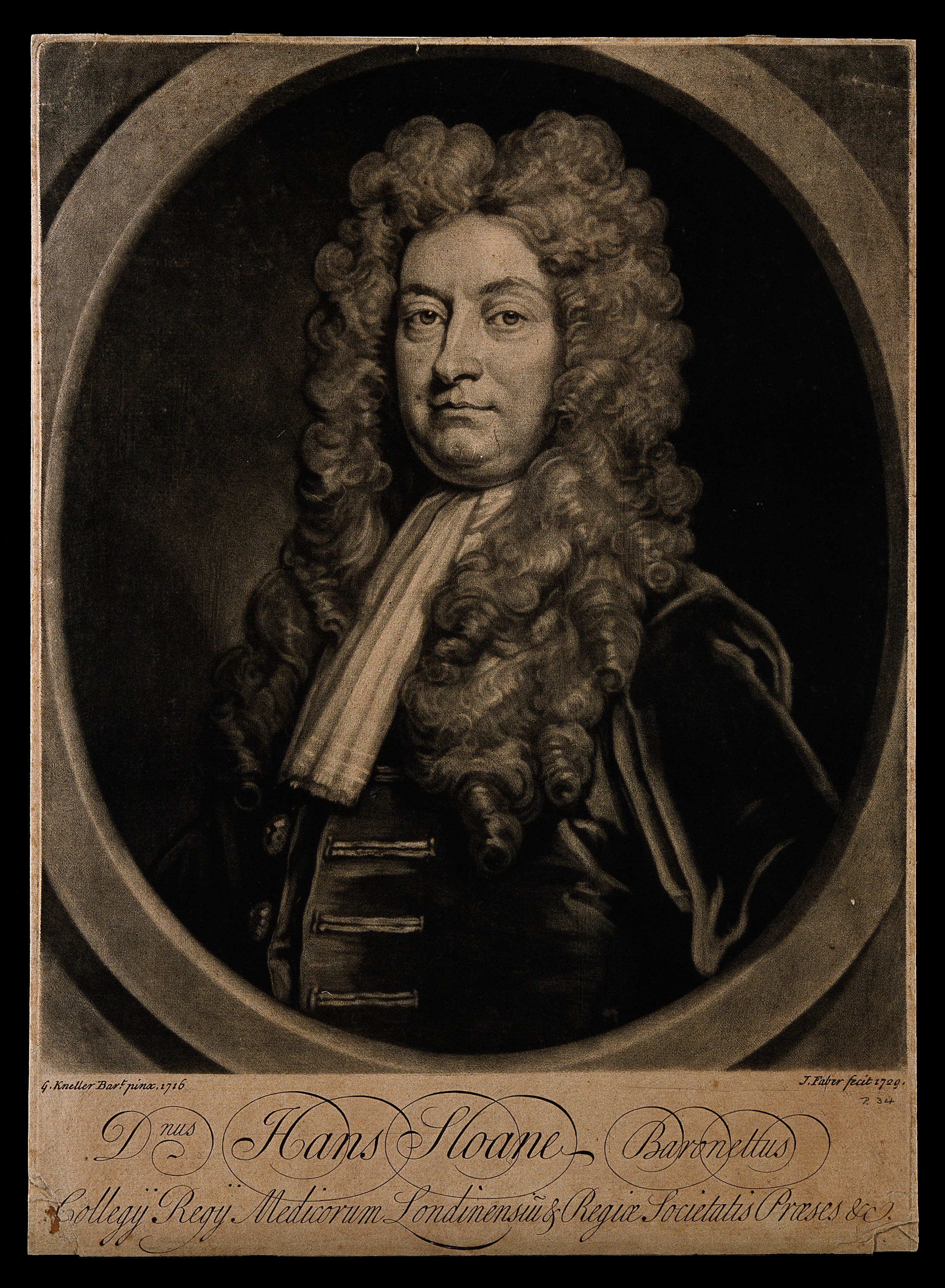 Sir Hans Sloane. Mezzotint by J. Faber, junior, 1729, after Sir G. Kneller, 1716. Iconographic Collections Keywords: portrait prints; mezzotints; Hans Sloane